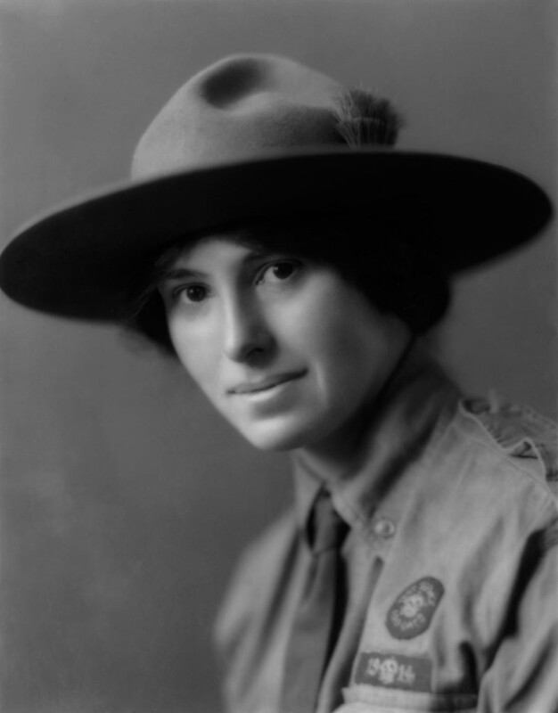 Olave St Clair Baden-Powell (née Soames), 18 February 1916